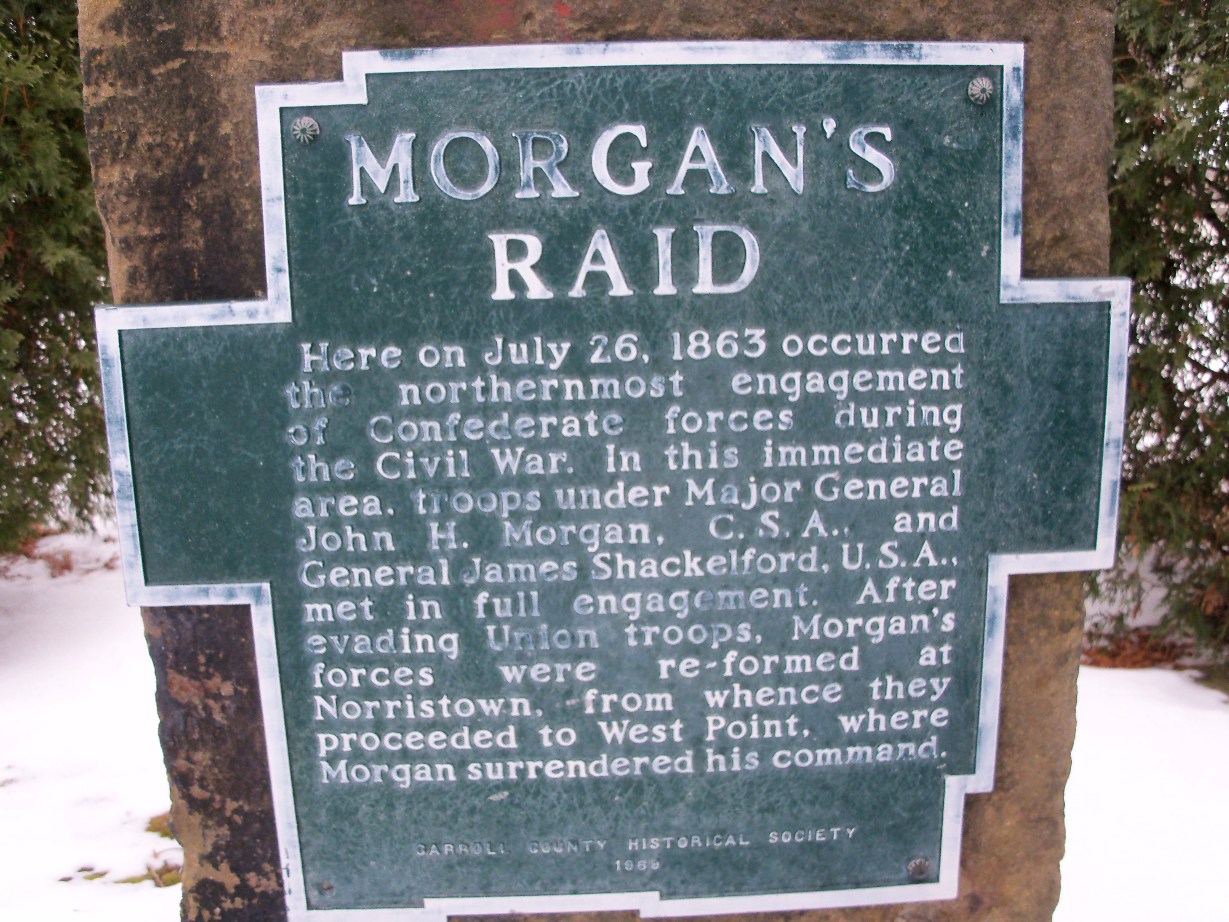 Historical Marker for Battle of Salineville, north side of route 39 in Fox Township, Carroll County, Ohio.